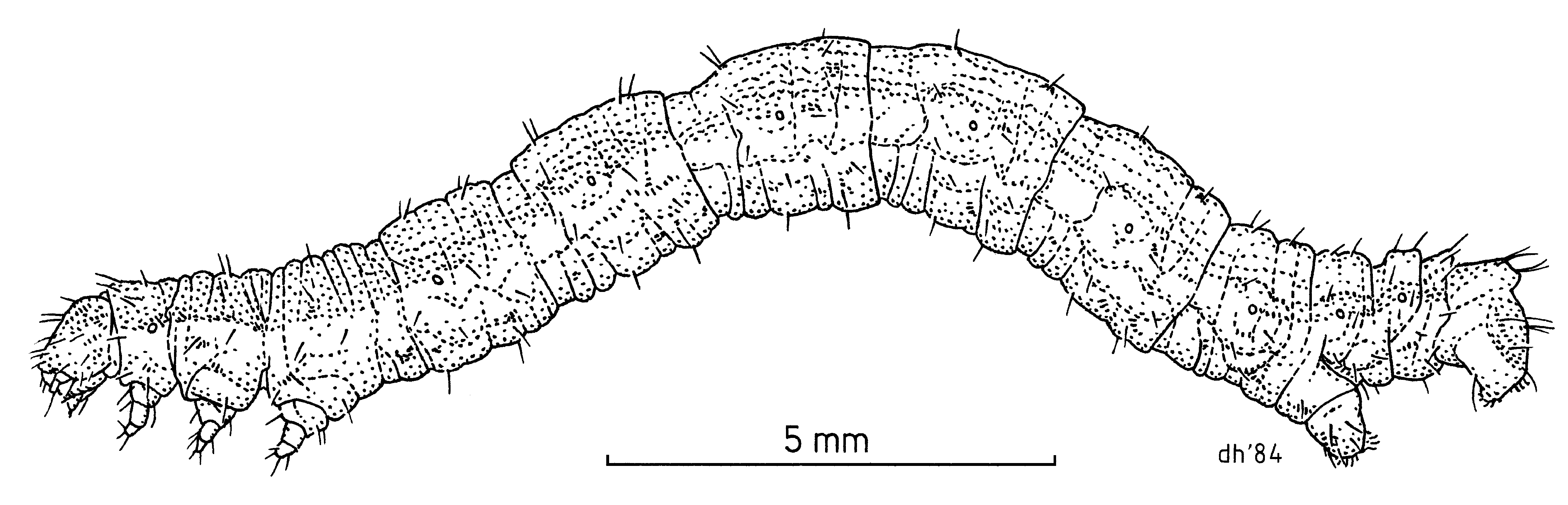 (Lepidoptera: Geometridae) Xanthorhoe semifissata larva illustrated by Des Helmore.